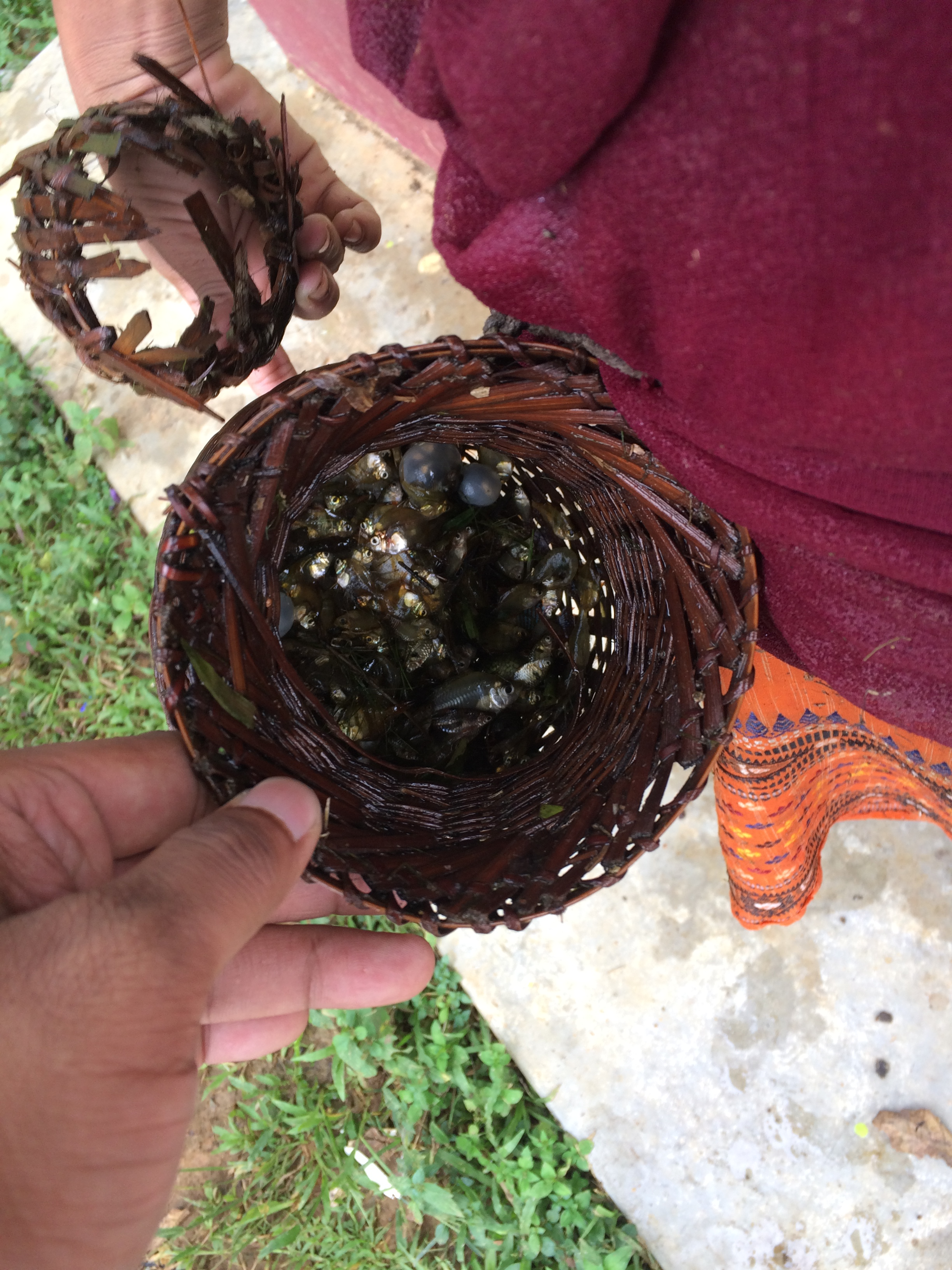 image showing natural dyes from endemic plants used to color Eri Silk by indigenous people, as seen at 7Weaves, Assam